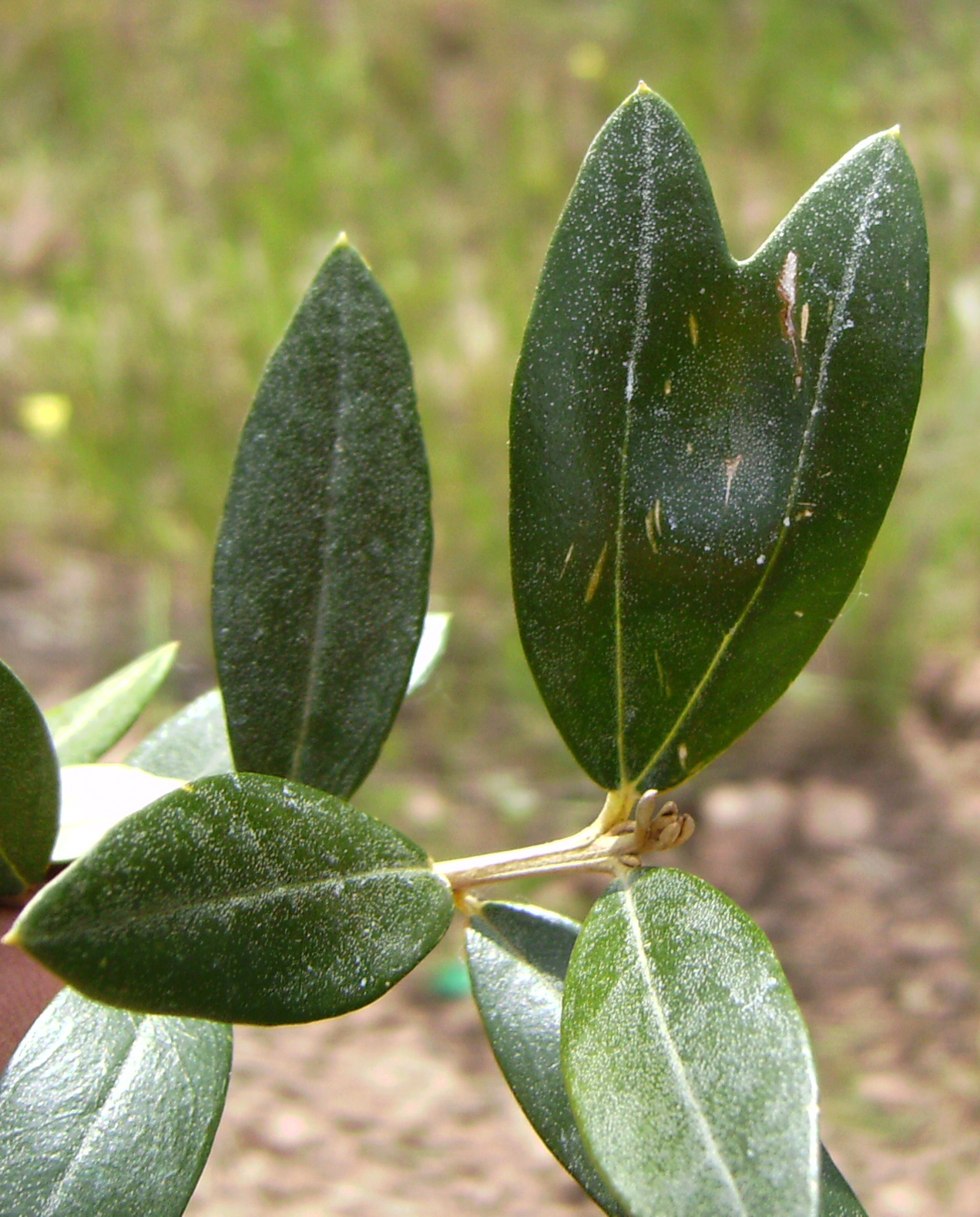 Leccino, italian olive tree cultivar, with a double leaf, Castelltallat, Catalonia